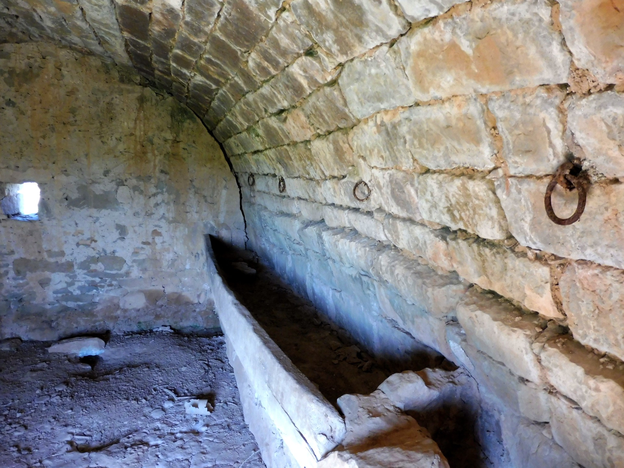 Feeding trough under the barrel vault of the stone hut II, Concabella, Valles del Sió-Llobregós, Province of Lleida, Catalonia, Spain.